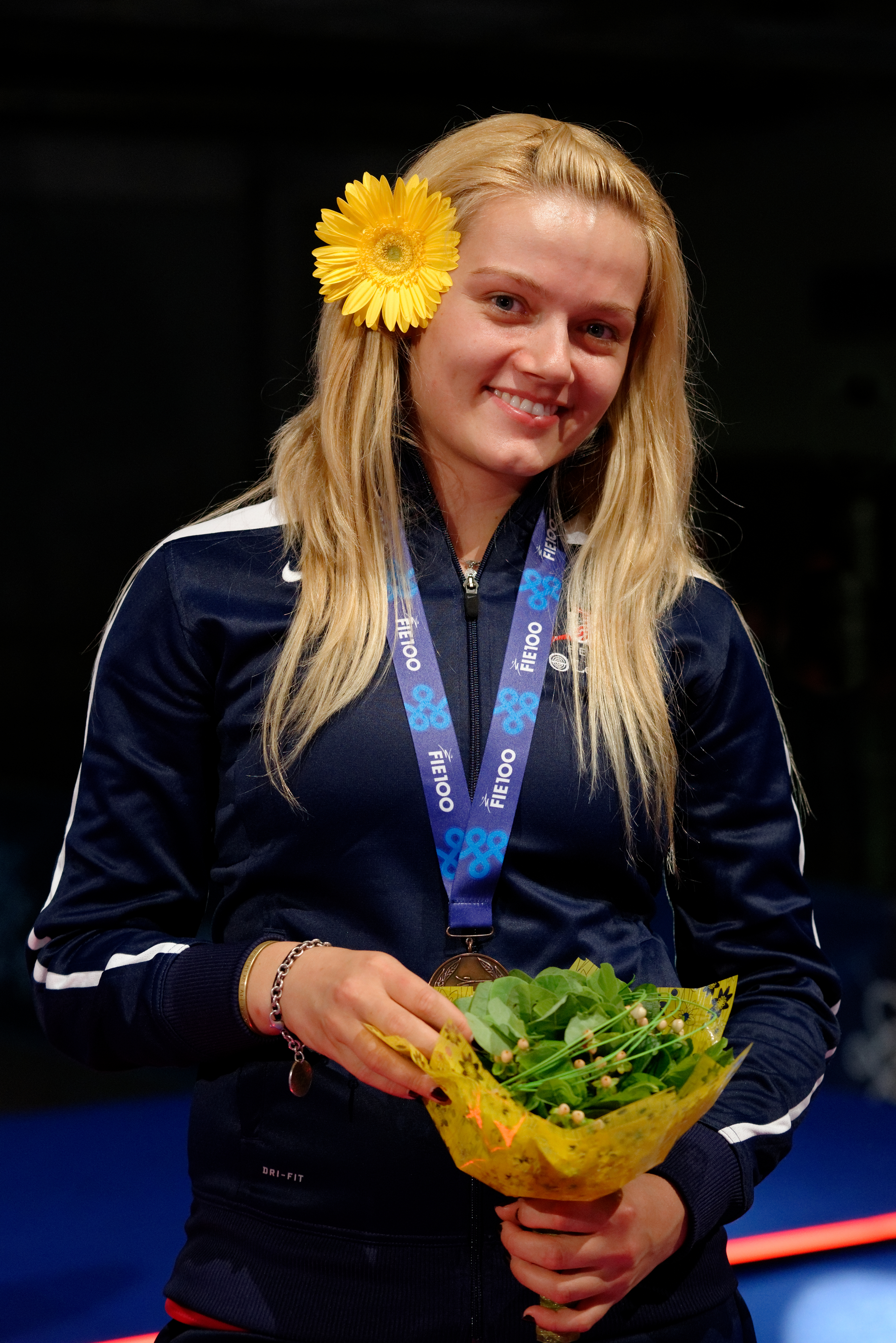 Dagmara Wozniak of the United States poses for photographs during the victory ceremony of the women's team sabre event in the 2013 World Fencing Championships 2013 at Syma Hall in Budapest, 12 August 2013.